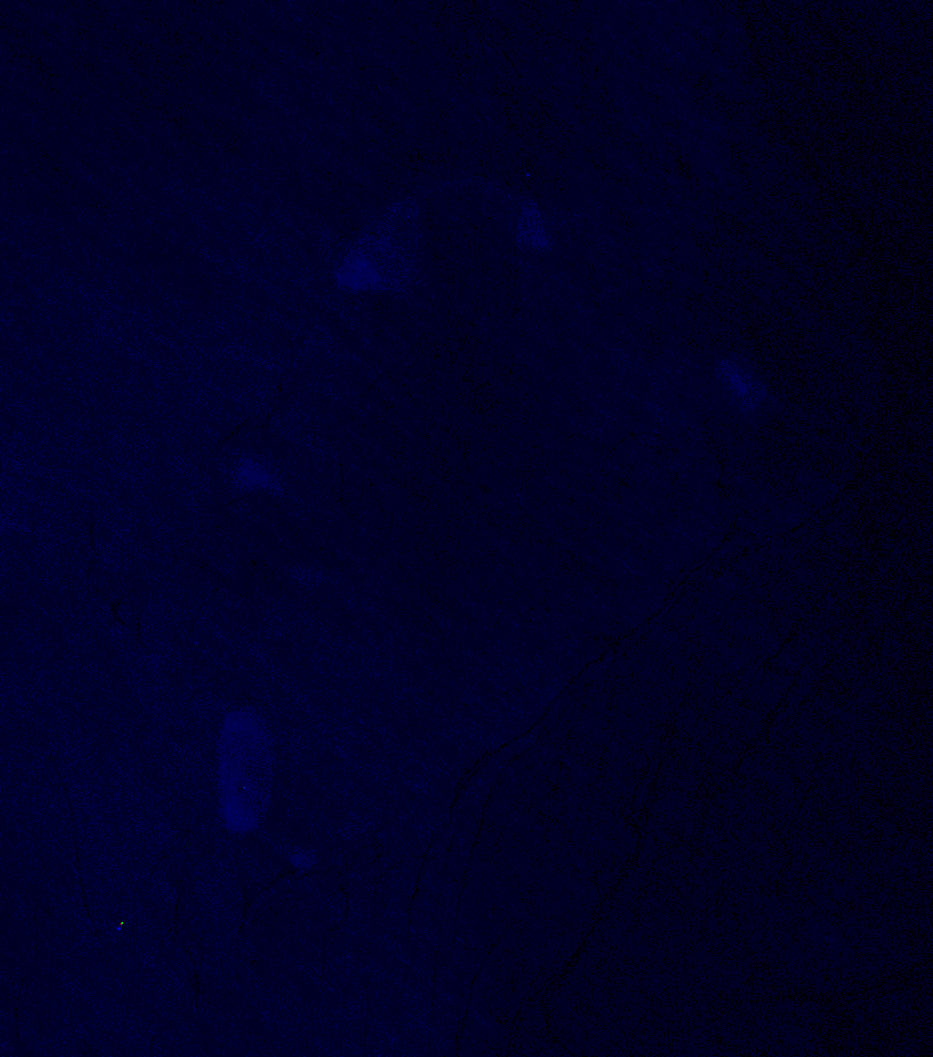 Prince Consort Bank is a group of coral reefs in the South China Sea.